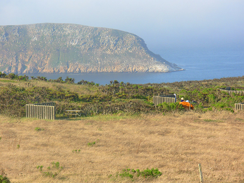 Campground on San Miguel Island, Channel Islands, California